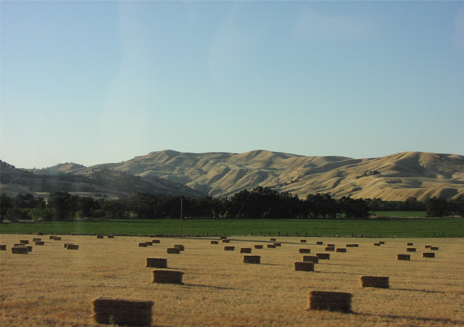 The fields of Capay Valley with hale bales — in Yolo County, northern California. This was taken from near Cache Creek Casino, in 2002. Own work.